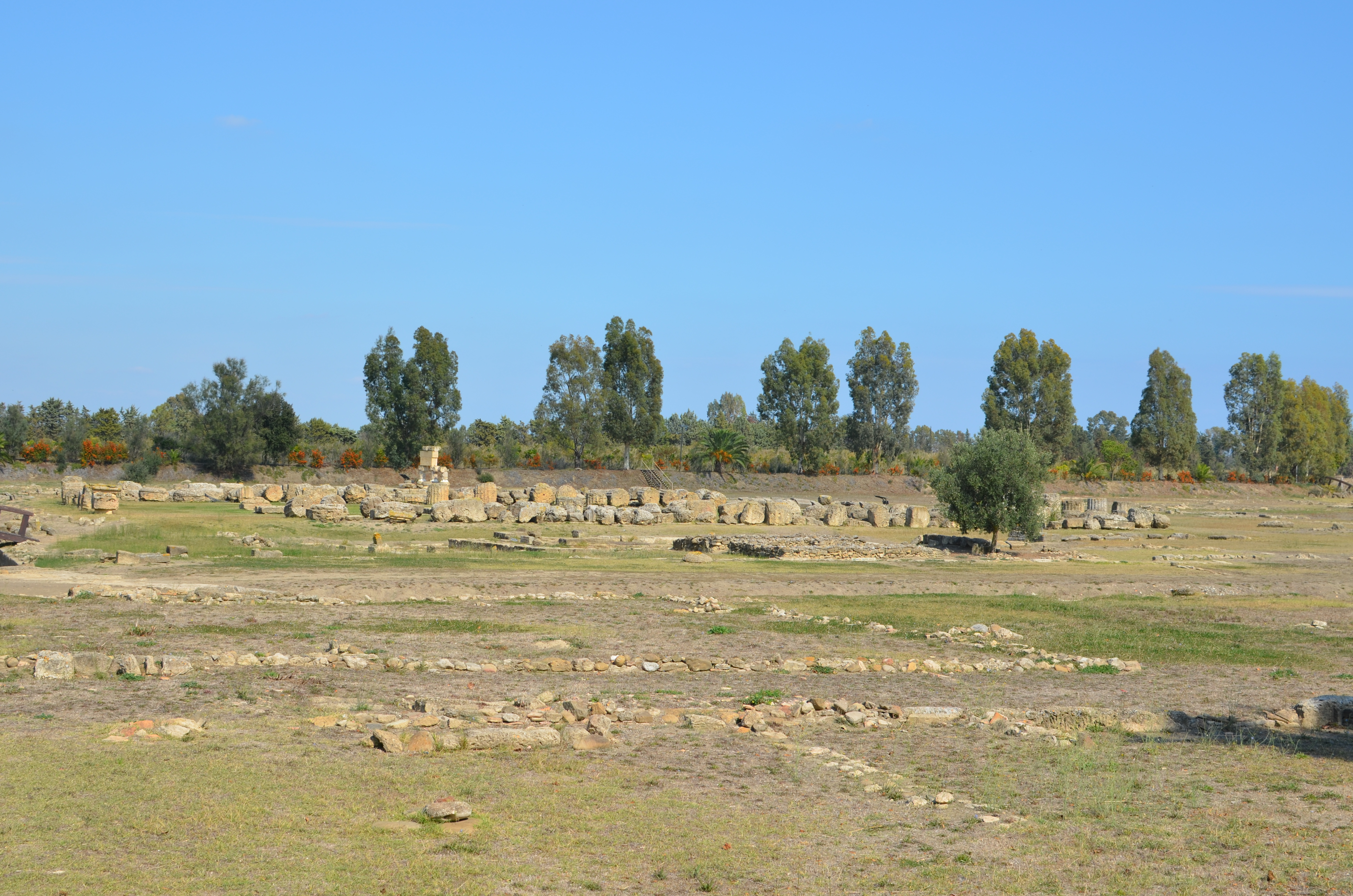 The ruins of the four temples of Metapontum. From the farthest to nearest: the temples of Artemis, Apollo, Hera and Athena.